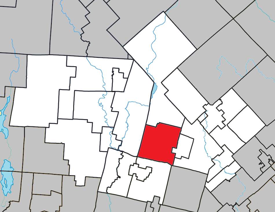 Location of Saint-Faustin–Lac-Carré, Quebec within Les Laurentides Regional County Municipality.